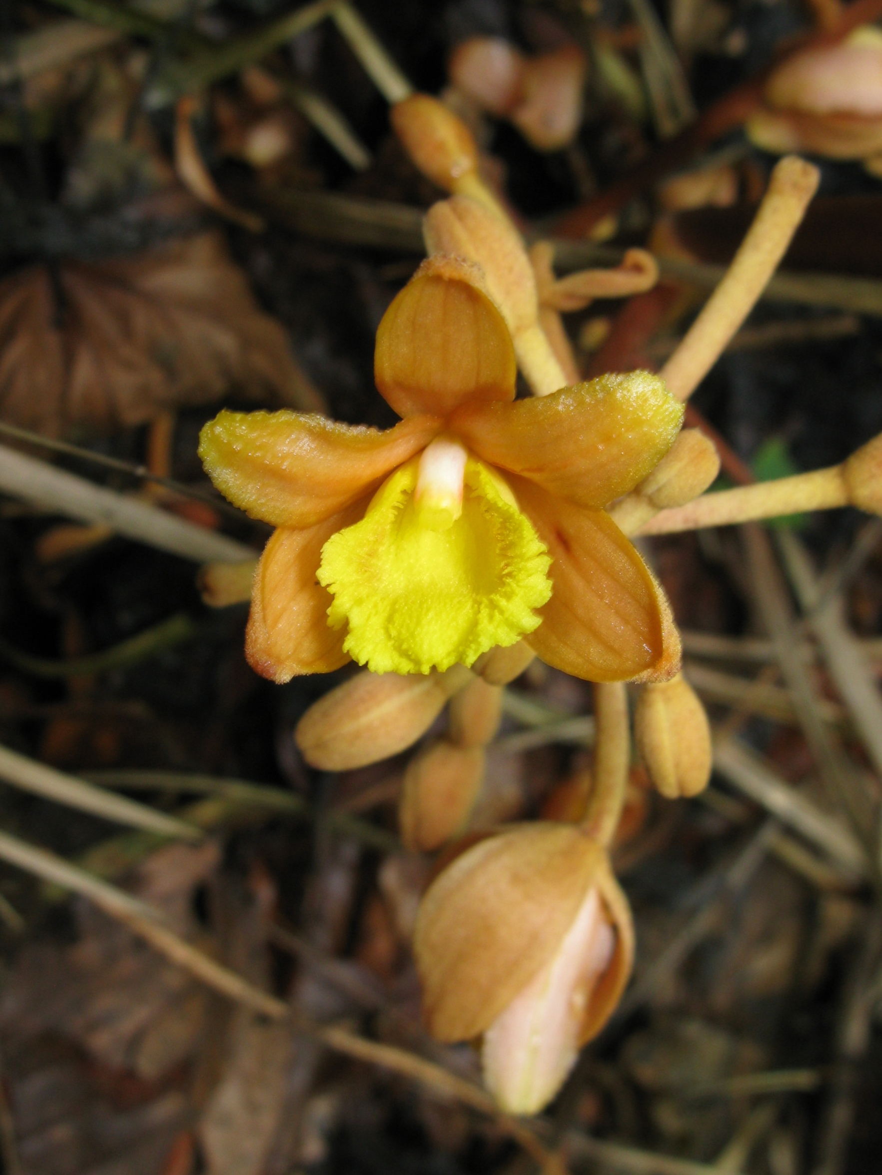 Cyrtosia septentrionalis, Mount Mikagura, Niigata pref., Japan